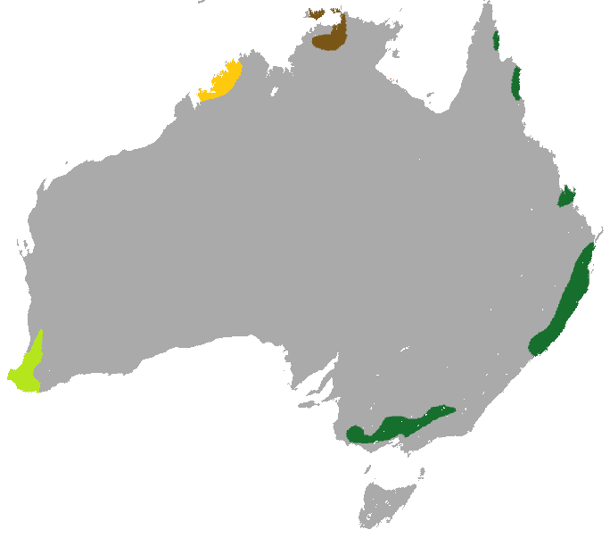 Common Wambenger (Phascogale tapoatafa) range (green — Phascogale tapoatafa tapoatafa, brown — Phascogale tapoatafa pirata)